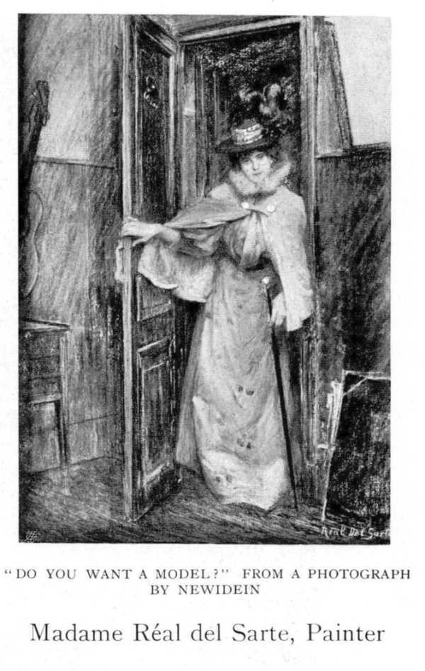 1905 print after page of Women painters of the world, from the time of Caterina Vigri, 1413-1463, to Rosa Bonheur and the present day, by Walter Shaw Sparrow, The Art and Life Library, Hodder & Stoughton, 27 Paternoster Row, London